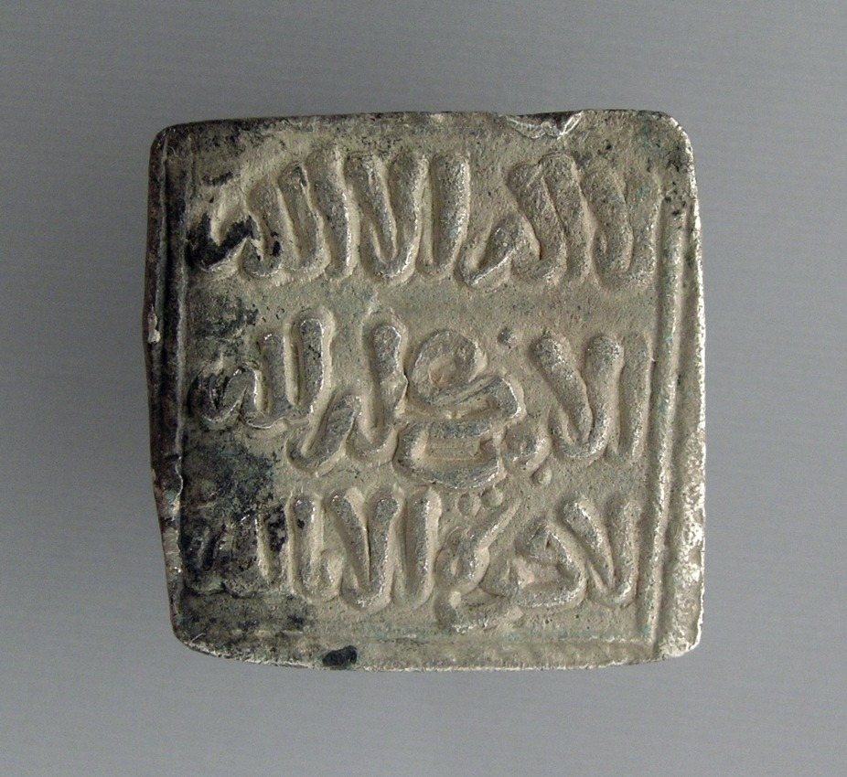 Spain or North Africa, second half of 12th-first half of 13th century Tools and Equipment; coins Coin The Madina Collection of Islamic Art, gift of Camilla Chandler Frost (M.2002.1.434) Islamic Art